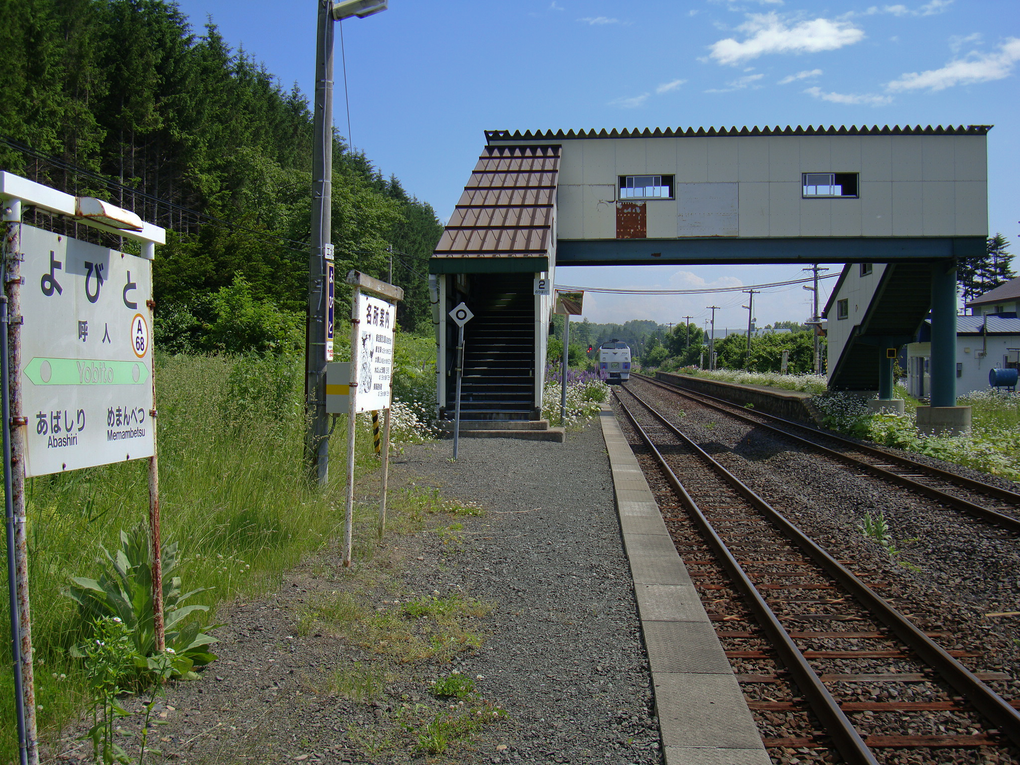 Yobito Station